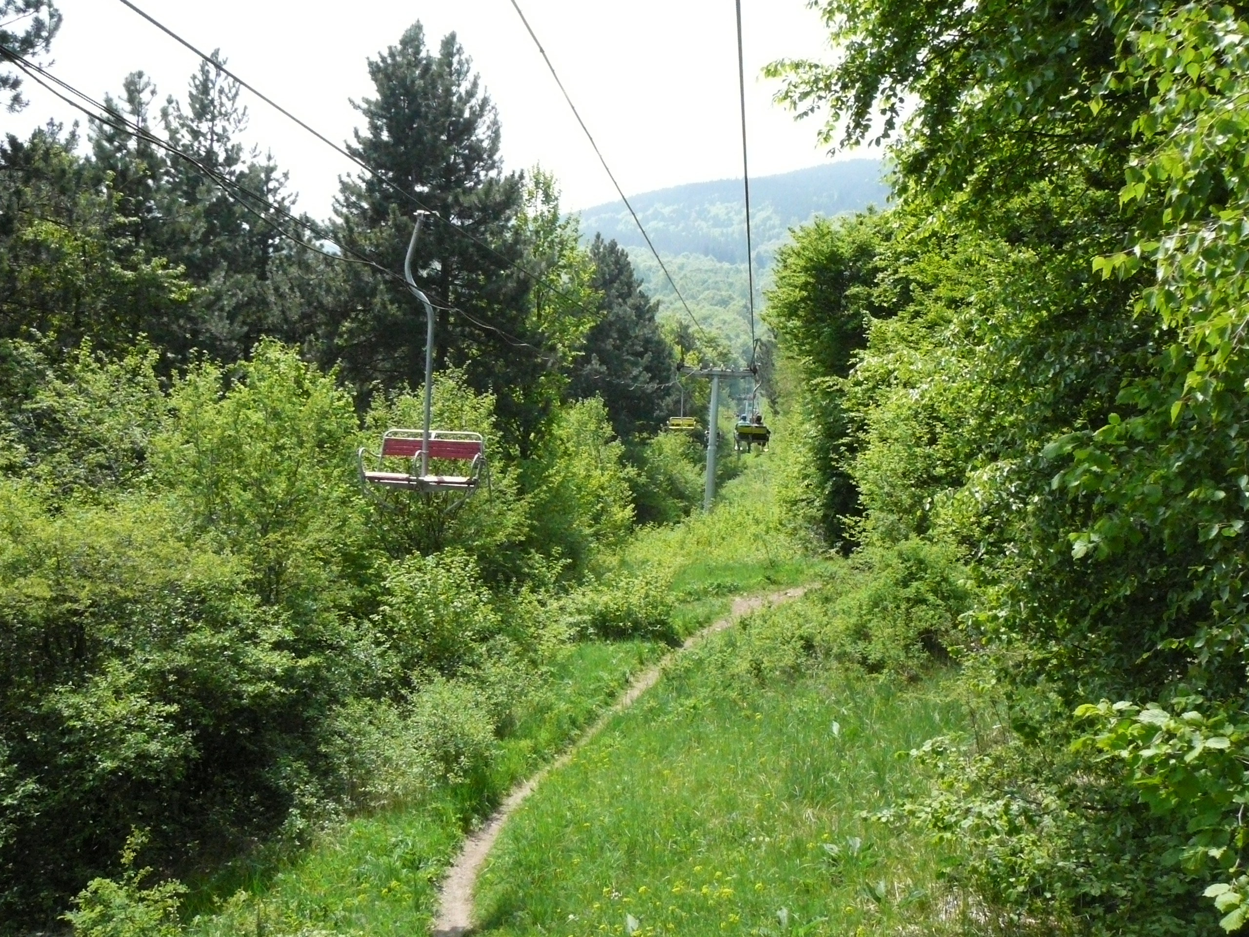 Chairlift in Dragalevtsi (Vitosha)